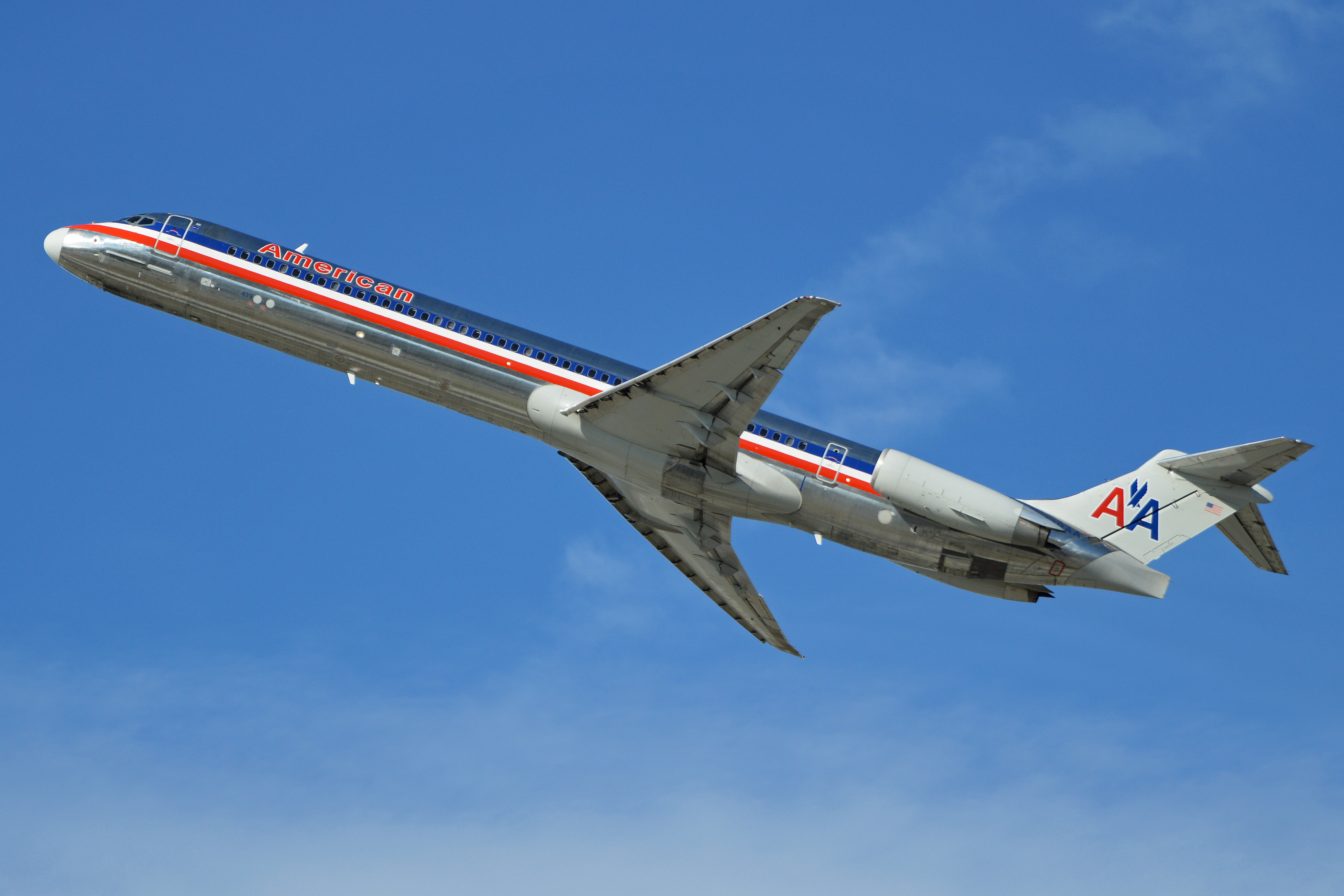 c/n 49457, l/n 1398. Built 1987. Seen departing LAX. Taken from the Imperial Hill spotting location. Los Angeles, California, USA. 08-2-2014